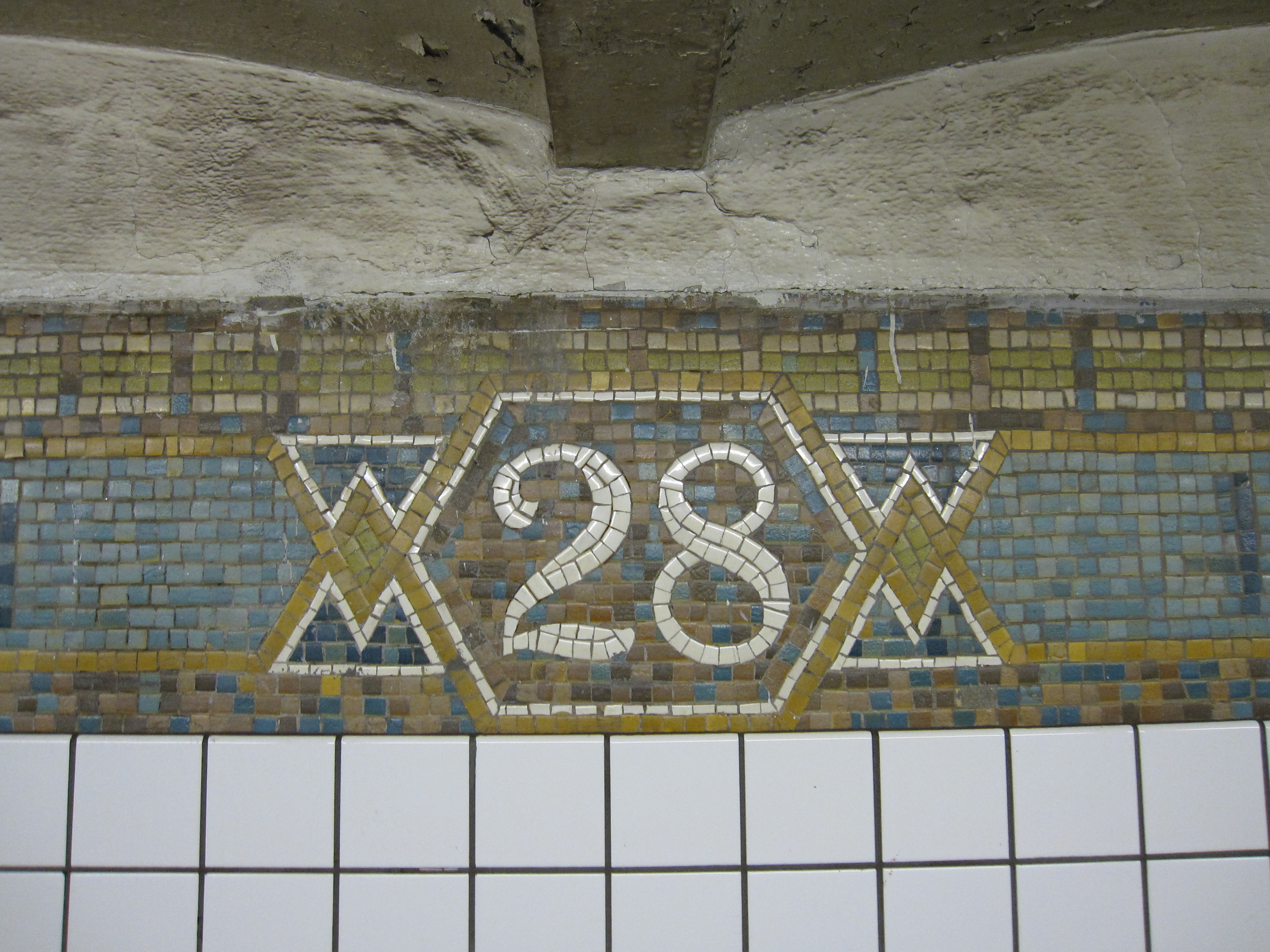 28th Street (IRT Broadway – Seventh Avenue Line)